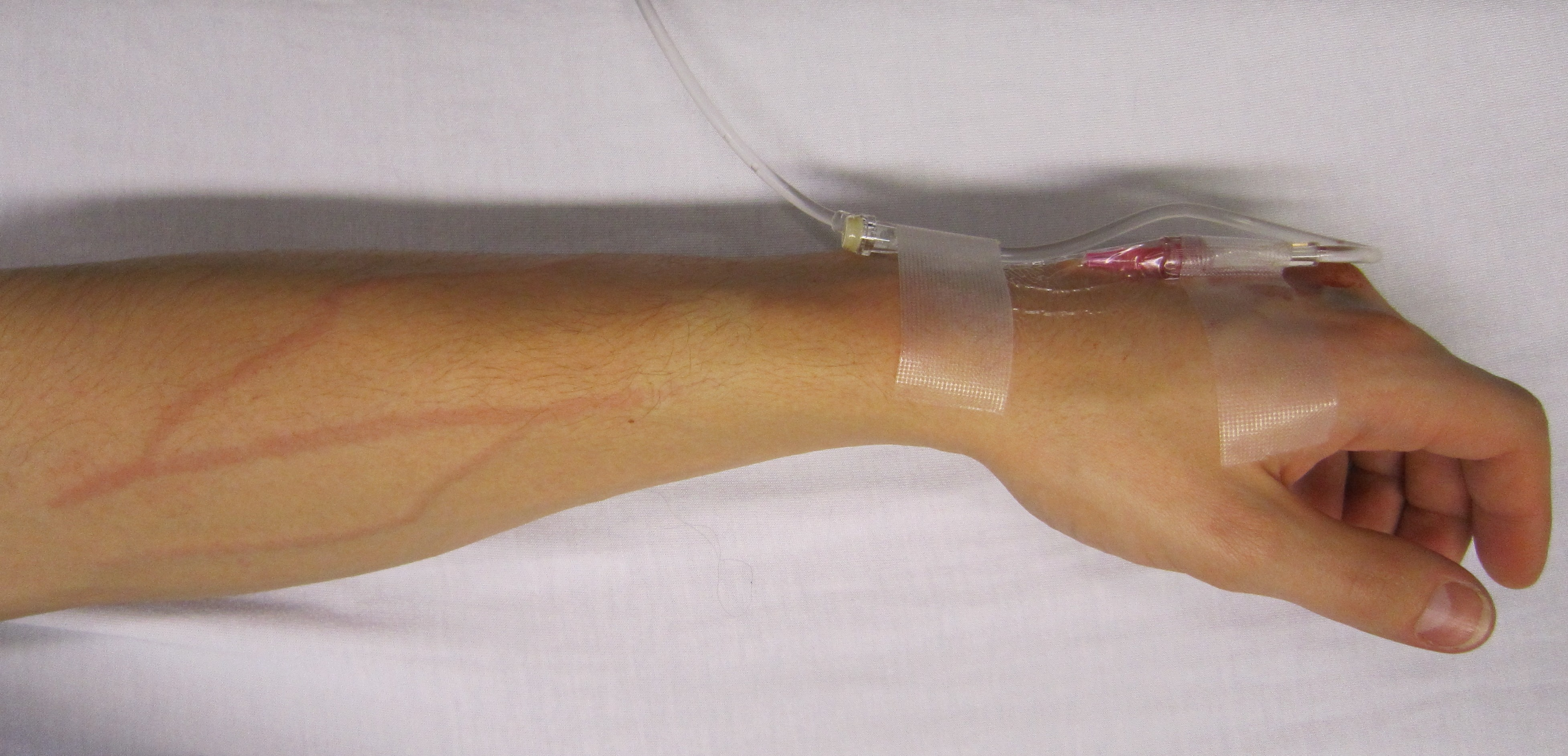 A localized side effect of morphine due to histamine release (veins become red)